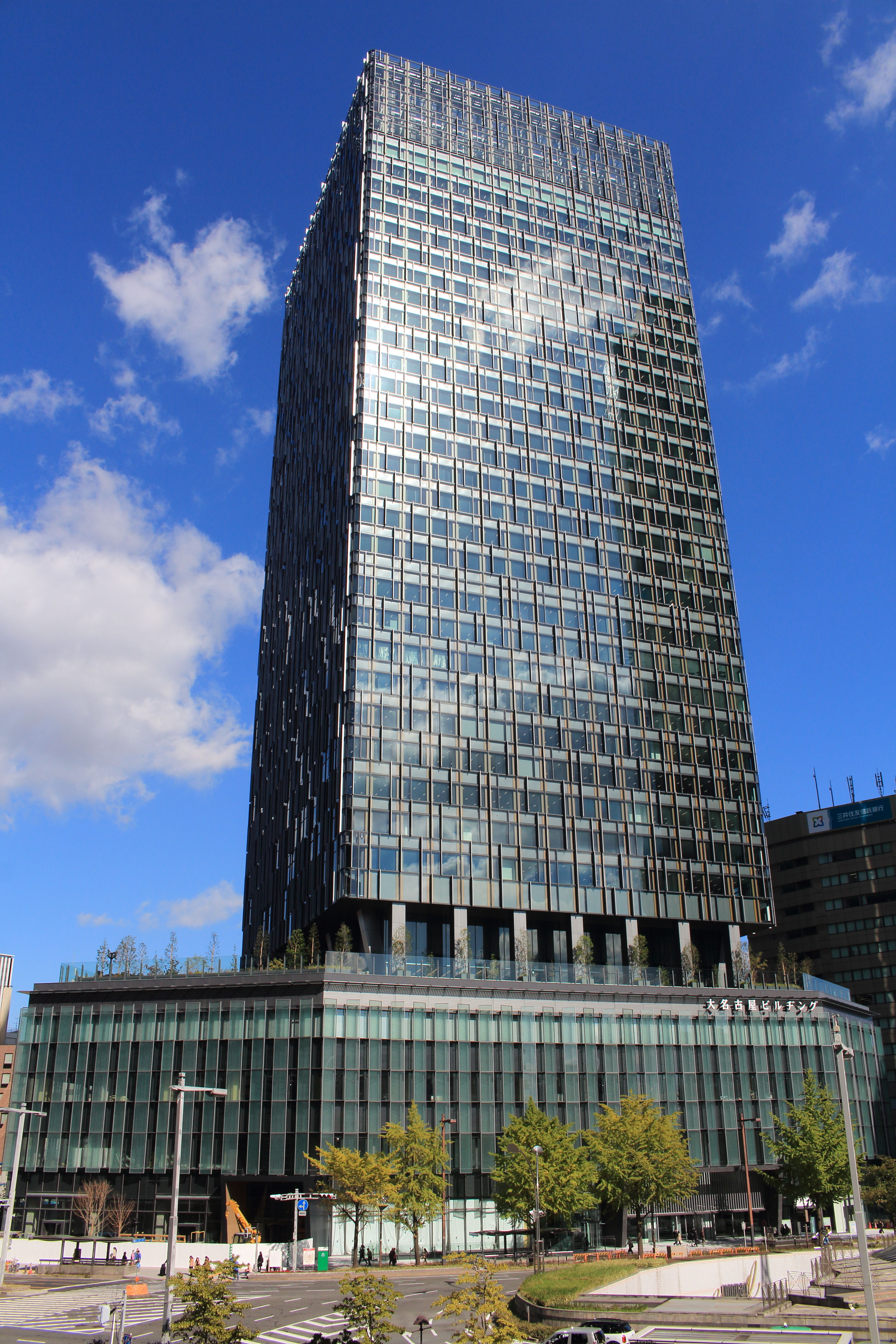 Dai-Nagoya Building, in Meieki, Nakamura, Nagoya, Aichi prefecture, Japan.